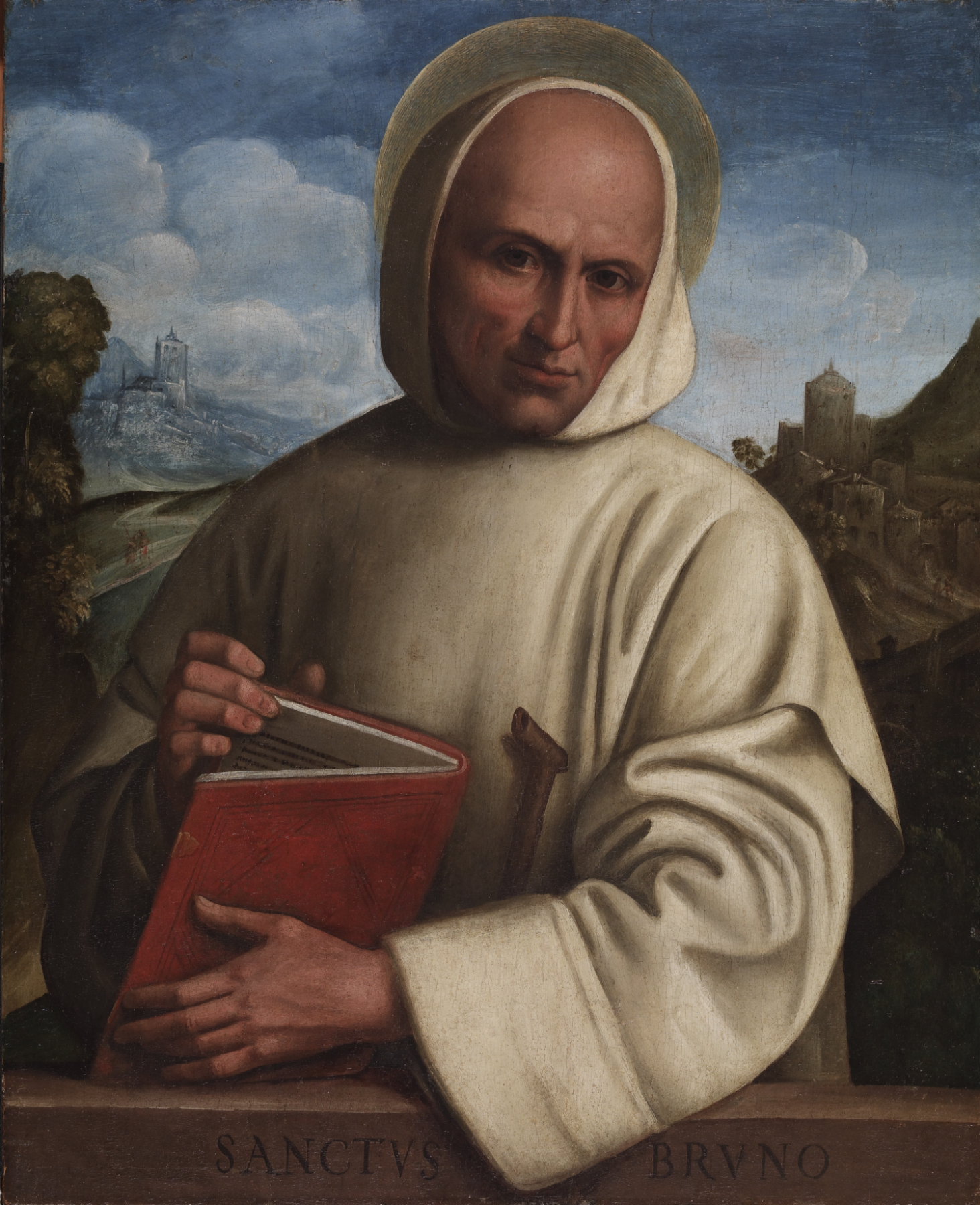 The inscription on the ledge identifies the subject as St. Bruno of Cologne (ca. 1035-1101), the founder of the Carthusian monastic order. He was canonized, or sainted, by Pope Leo X in 1514. Although the artist did not know what St. Bruno actually looked like, he created an individualized portrait with hollow cheeks and large eyes. These features, along with the landscape, make the saint seem quite real to the viewer.